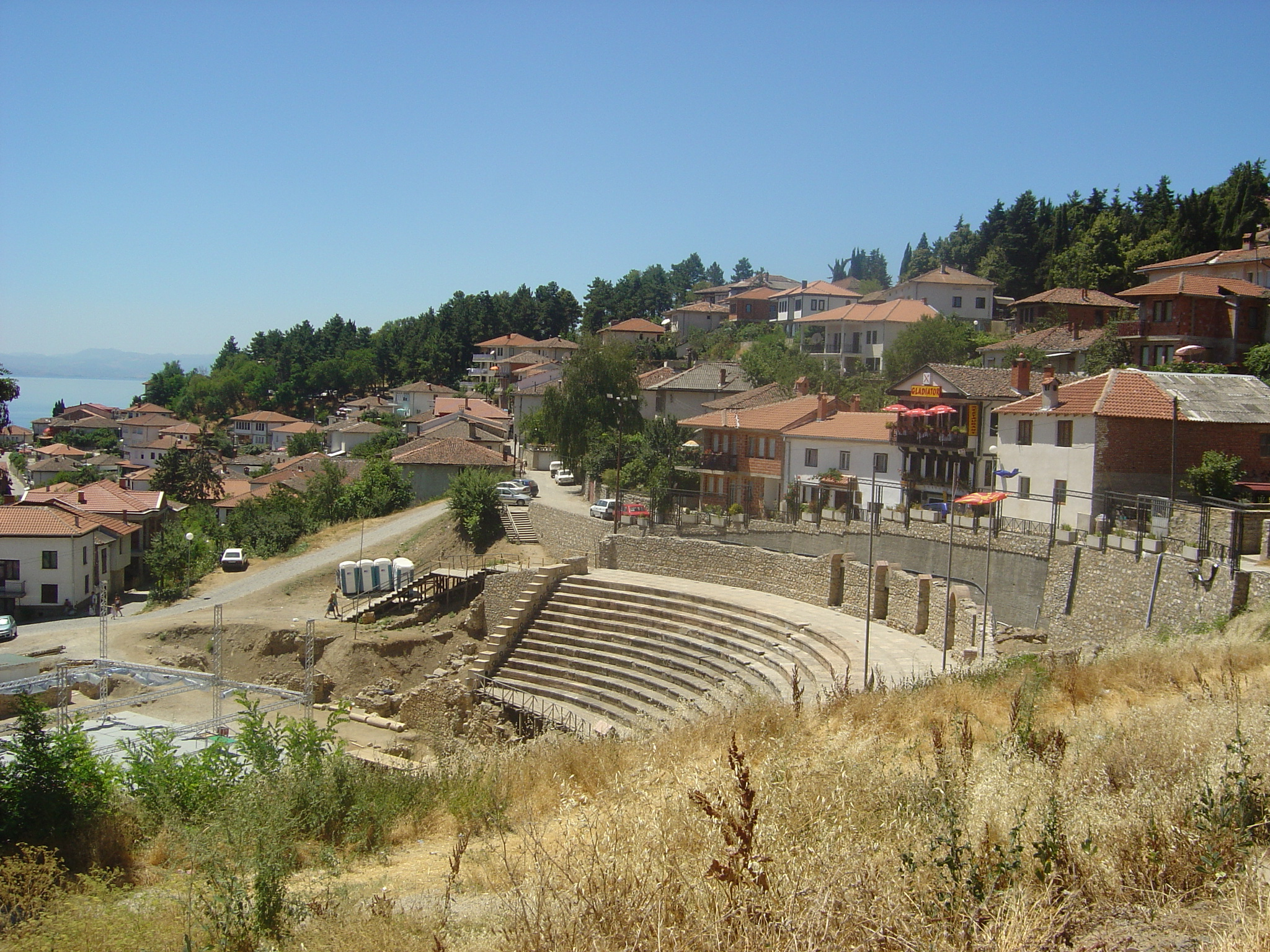 Ancient theatre